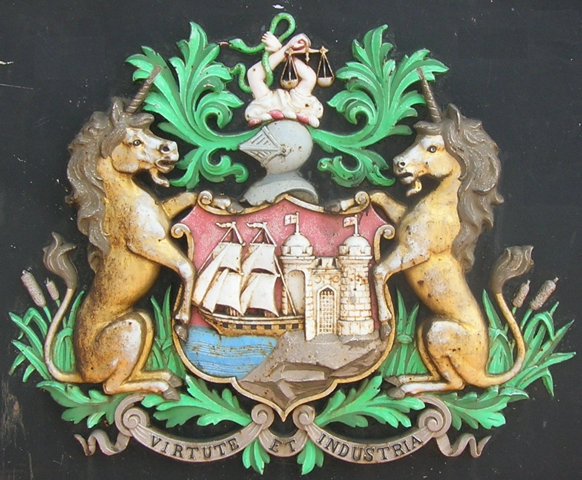 Coat of arms of the Bristol City Council on Bath Bridge, near Temple Meads station. Blazon: Arms: Gules on the sinister side a Castle with two towers domed all argent on each dome a Banner charged with the Cross of St. George the Castle on a Mount Vert the dexter base Water proper thereon a Ship of three masts Or the rigging Sable sailing from a port in the dexter tower her fore and main masts being visible and on each a round top of the fifth on the foremast a sail set and on the mainmast a sail furled of the second. Crest: On a Wreath Or and Gules issuant from Clouds two Arms embowed and interlaced in saltire proper the dexter hand holding a Serpent Vert and the sinister holding a Pair of Scales Or. Supporters: On either side a Unicorn sejant Or armed maned and unguled Sable. Badge: On a Roundel Gules on the sinister side a Castle with two towers domed Argent on each dome a Banner charged with a Cross of St. George issuant from a port in the dexter tower thereof a Ship of three masts Or the fore and mainmasts being visible the rigging and round tops Sable on the foremast a Sail set and on the mainmast a Sail furled both Argent the whole encompassed by a Rope and issuant therefrom four Fleurs-de-Lys Or. Motto: Virtute et Industria (By virtue and industry).